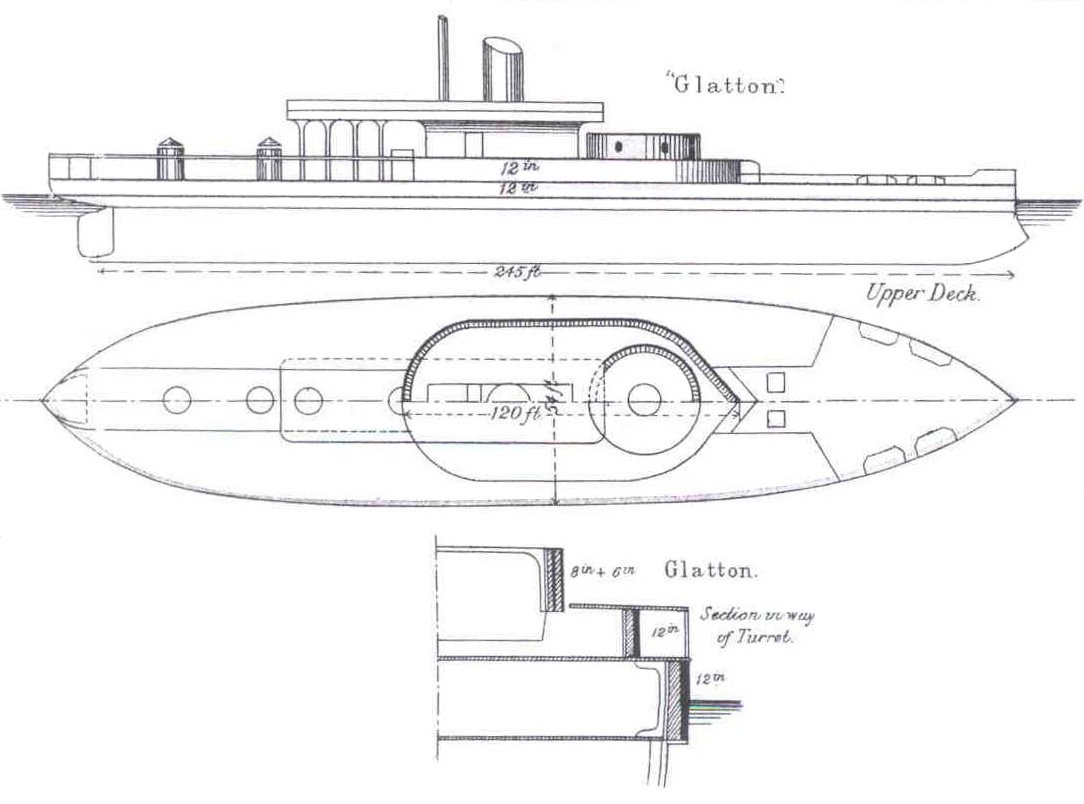 Diagrams depicting plan, right elevation and hull cross-section of British breastwork monitor HMS Glatton.